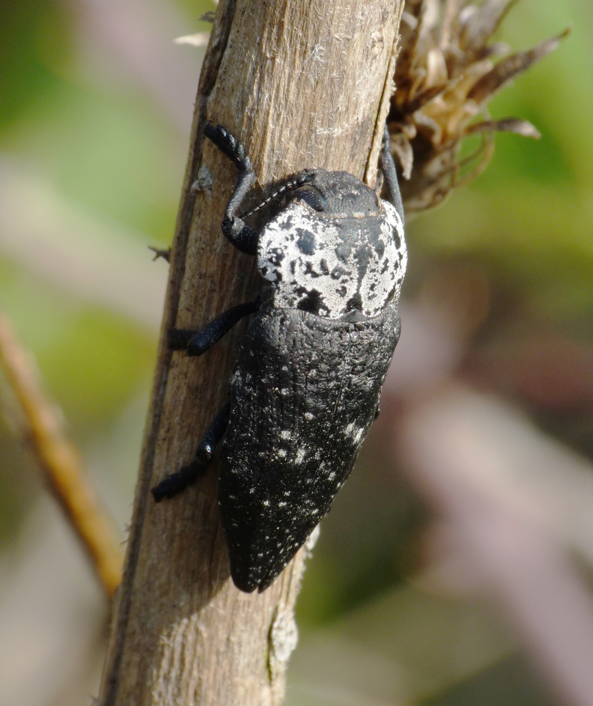 Capnodis tenebrionis, near Livorno, Tuscany, Italy